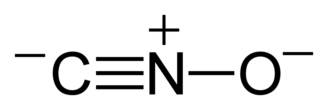 Structural formula of the fulminate anion This image shows some kind of formula that could be converted to TeX. The MediaWiki TeX interpreter generates either PNG images or simple HTML markup, depending on user preferences and the complexity of the expression. In future, as more browsers are smarter, it will be able to generate enhanced HTML or even MathML in many cases. Storing formulas as images makes it harder to change them. TeX also helps making sure that they all use the same font and size. A replacement has been proposed: − C ≡ N + − O − {\displaystyle {\ce {\mathsf {^{-}{C}{\equiv }{\overset {+}{N -O^{- } In your article, replace the image with: \mathsf{^-{C}{\equiv}\overset{+}{N}-O^-}